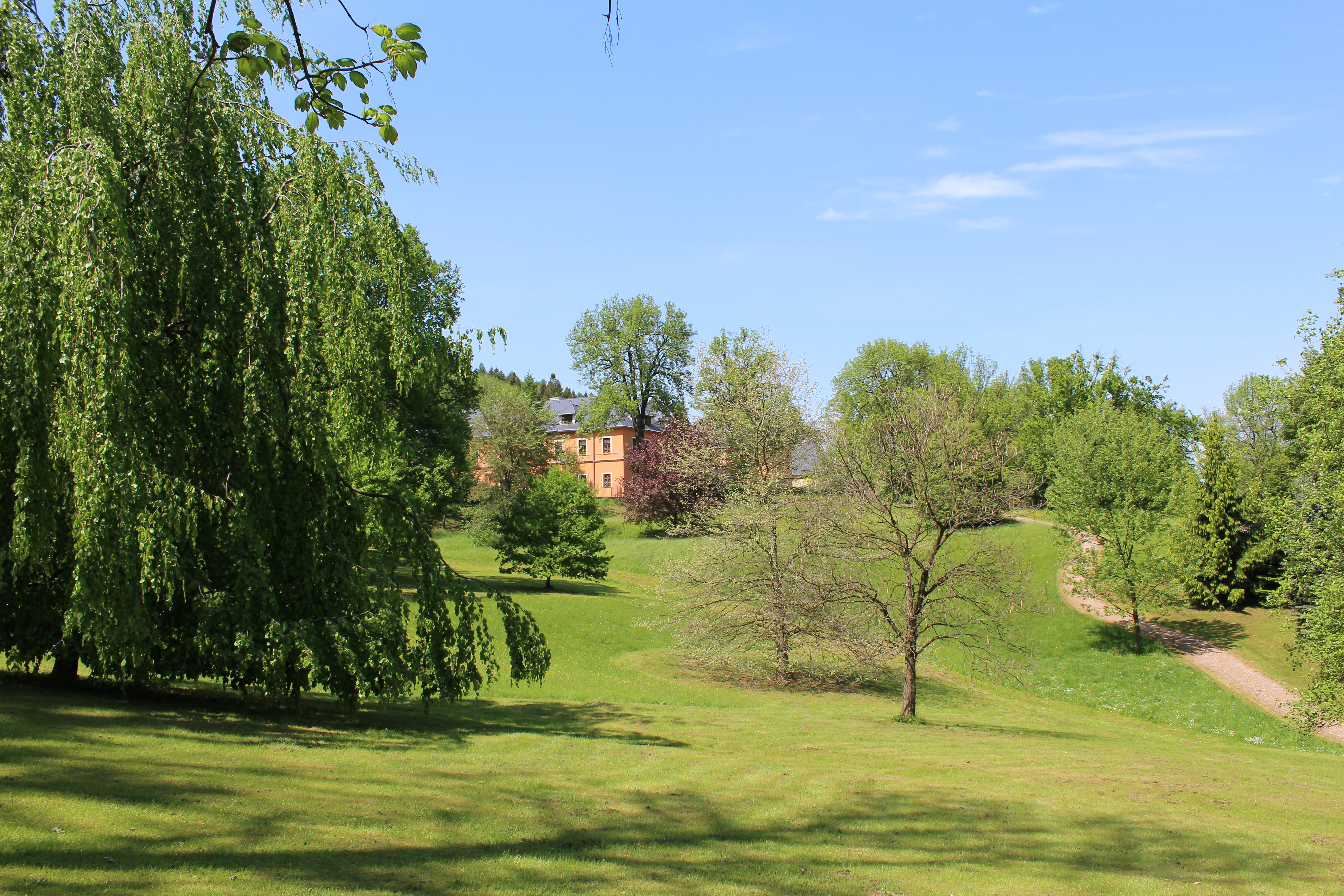 Arboretum Žampach - dolní park - jaro